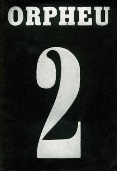 Orpheu, issue nr.1, cover.